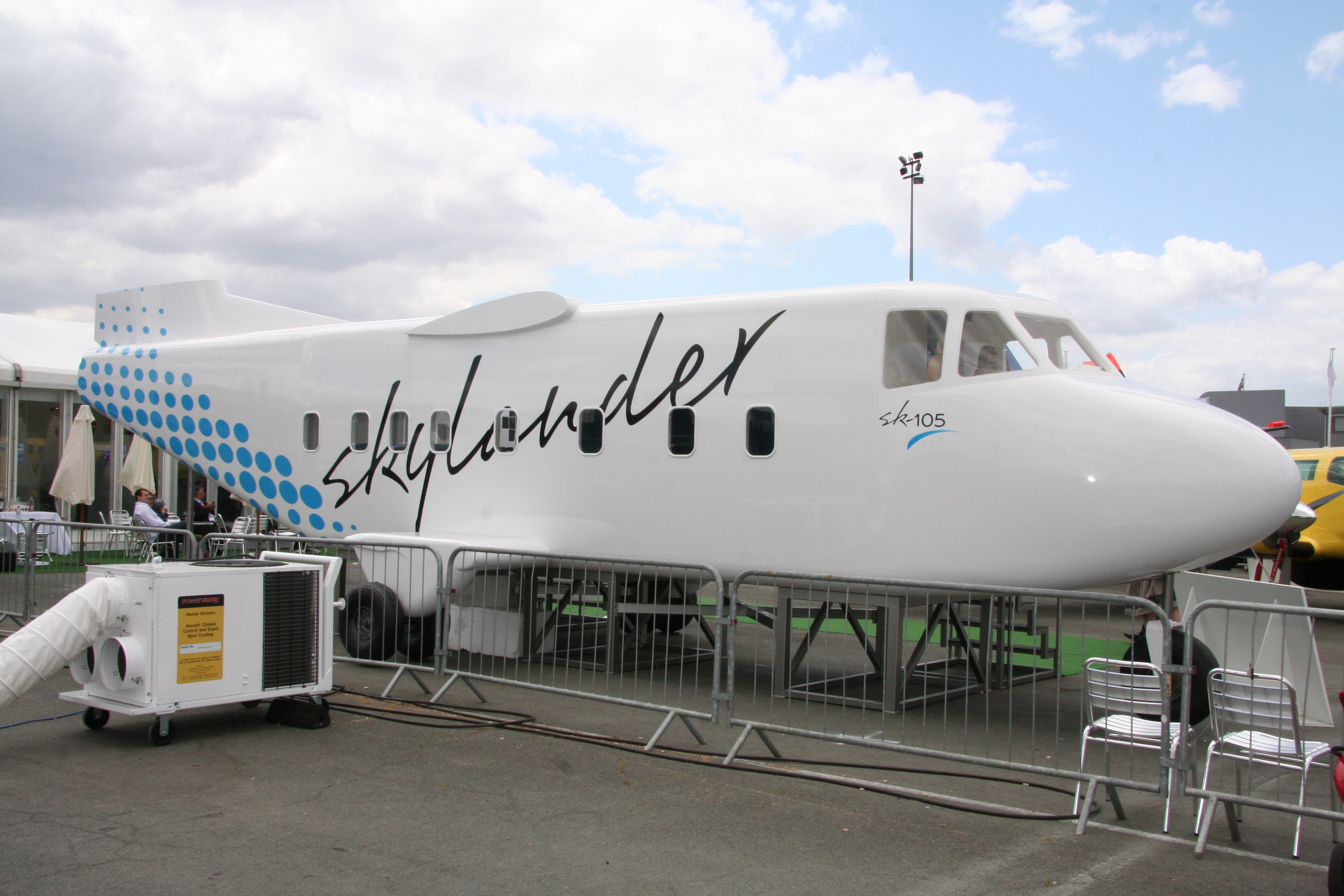 Skylander SK-105 - Paris Air Show 2009; Produder: GECI International; The GECI Skylander is a new twin turboprop light aircraft